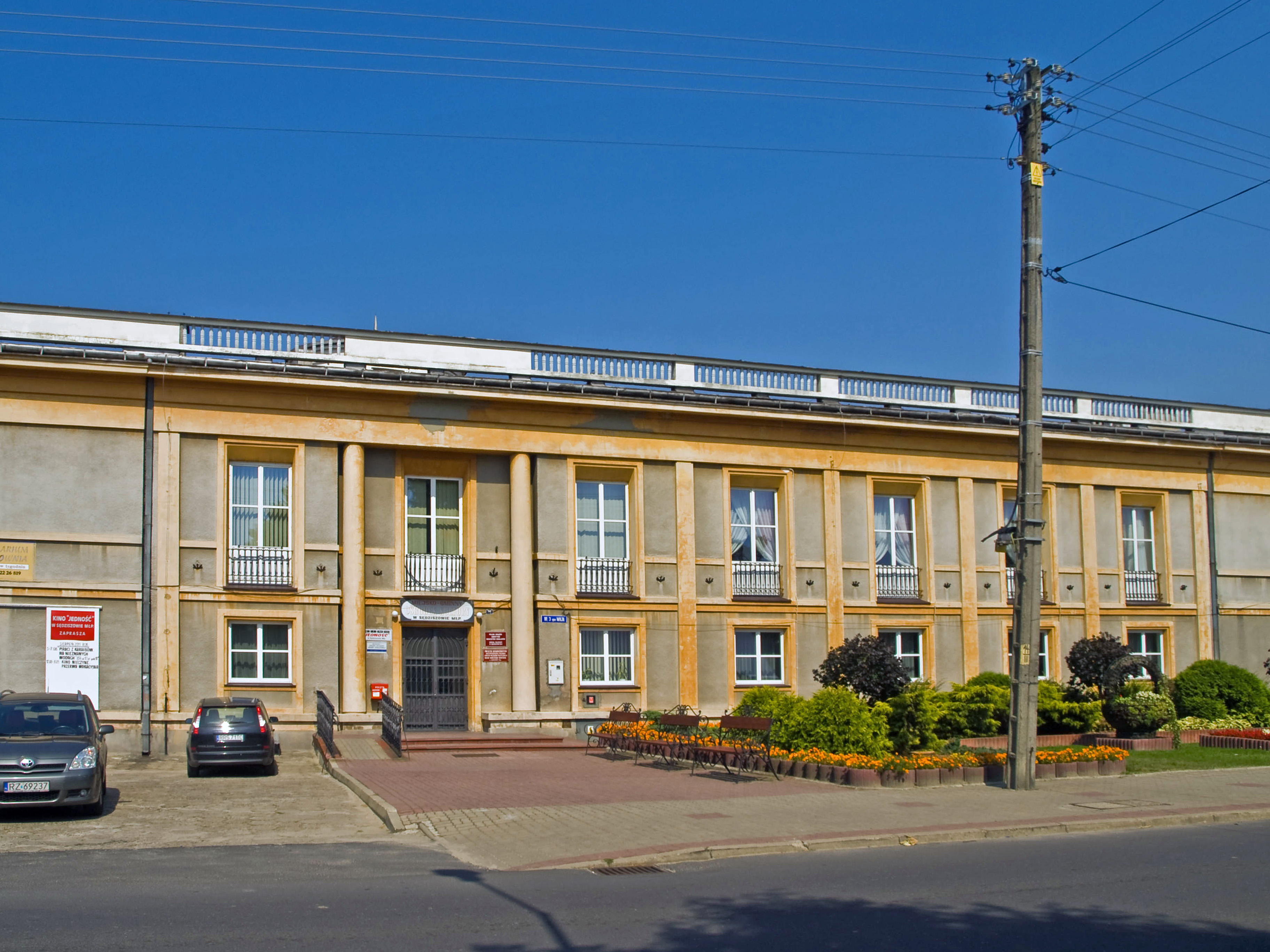 Community centre in Sędziszów Małopolski